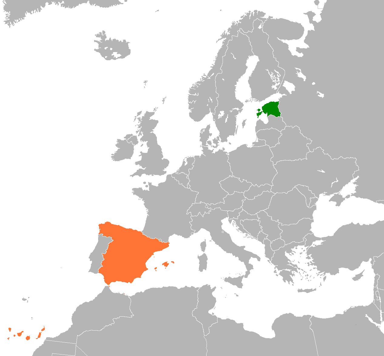 Estonia Spain Locator in Europe map.